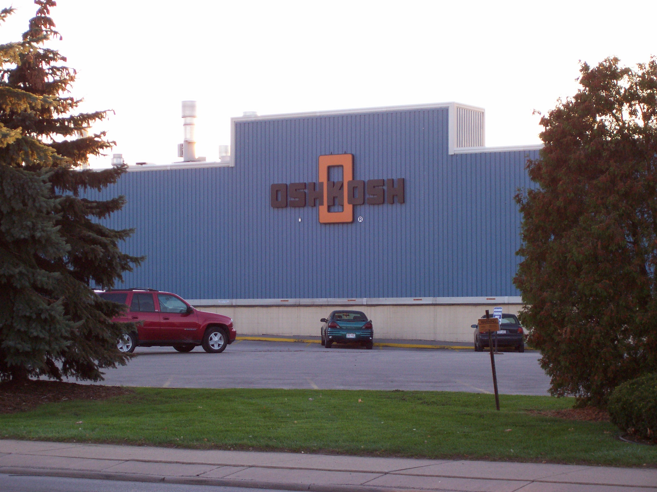 Image of a Oshkosh Truck's plant in Oshkosh, Wisconsin, United States